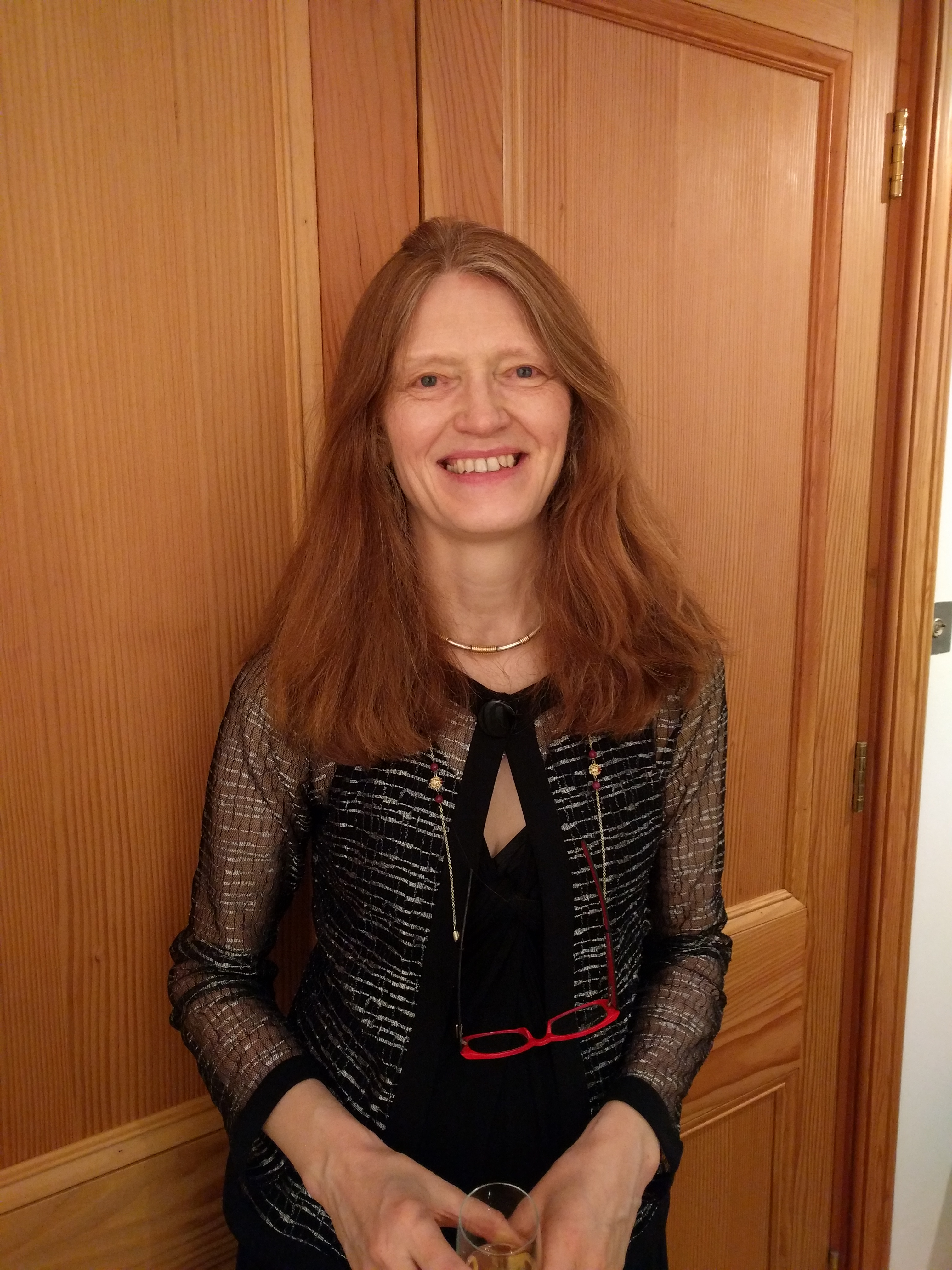 A photograph of Susan Jane Smith, British geographer and academic.